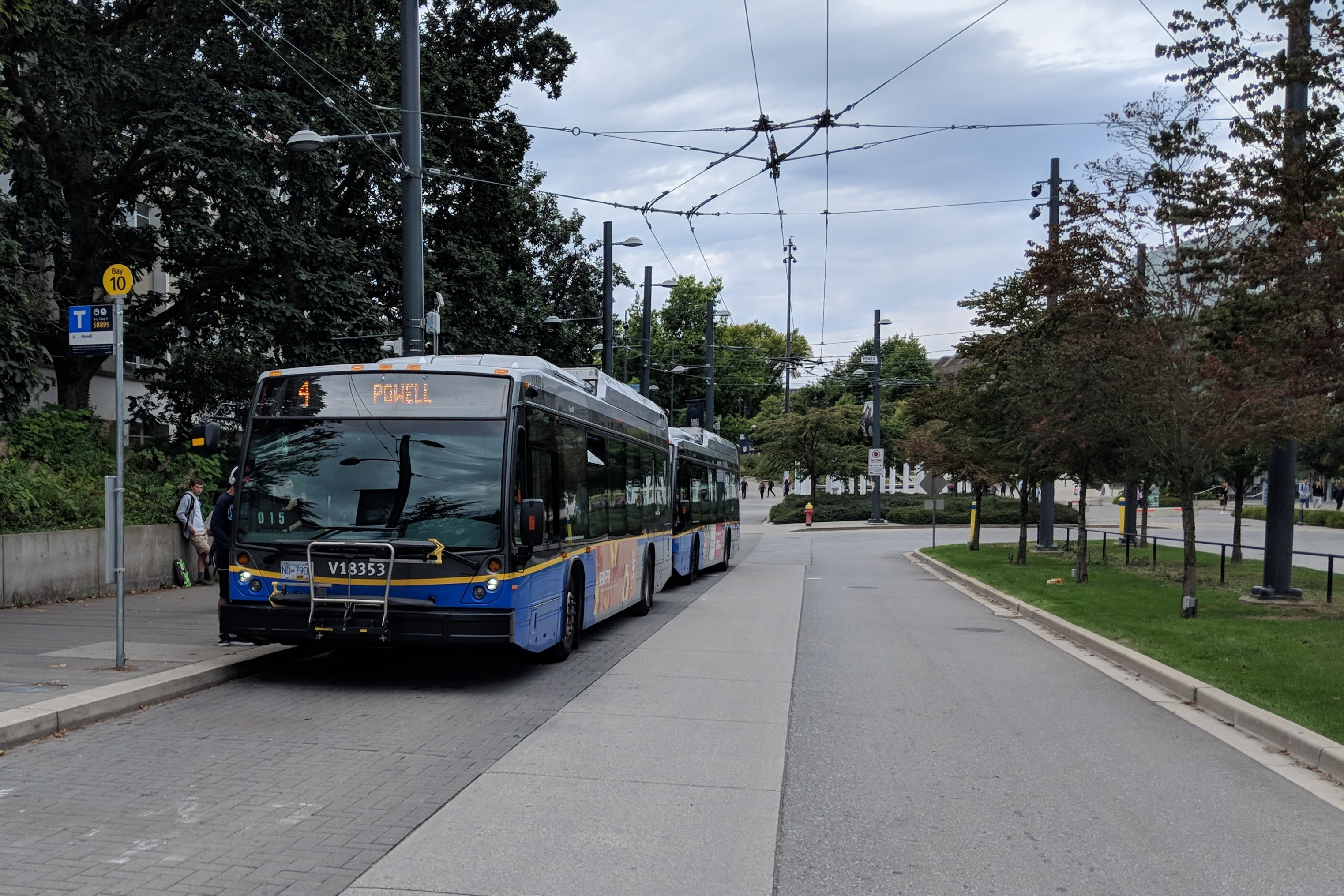 Bus bay 10 at the south loop of UBC Exchange is allocated to the #4 Powell. Photo taken in September 2019.